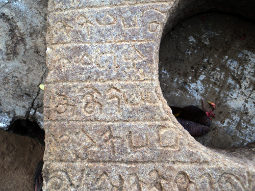 Trinco Chola insc 2